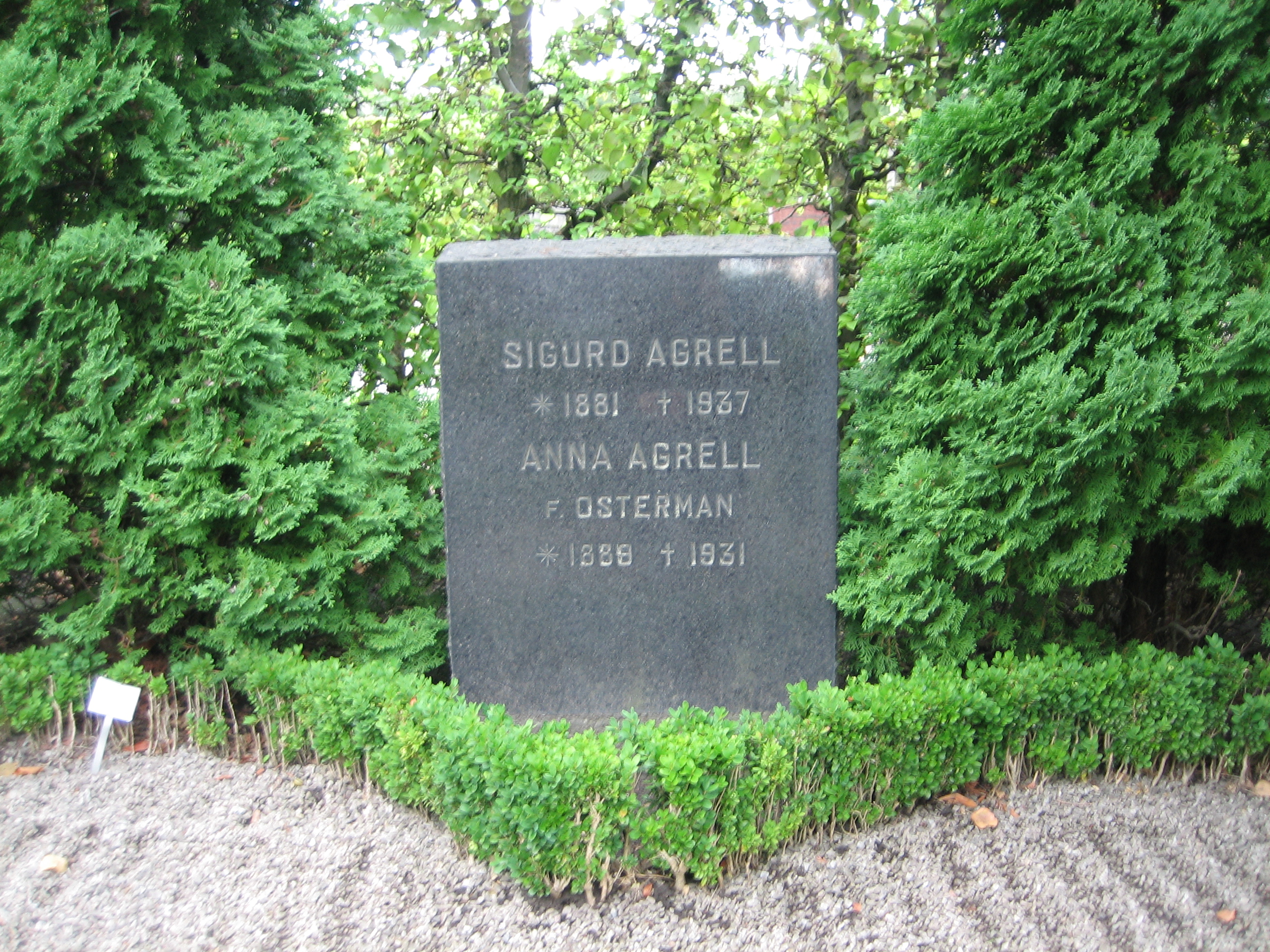 The grave of Sigurd Agrell (1881-1937), swedish slavist, professor and poet. Picture taken at Norra kyrkogården in Lund, Sweden by the uploader 080824.